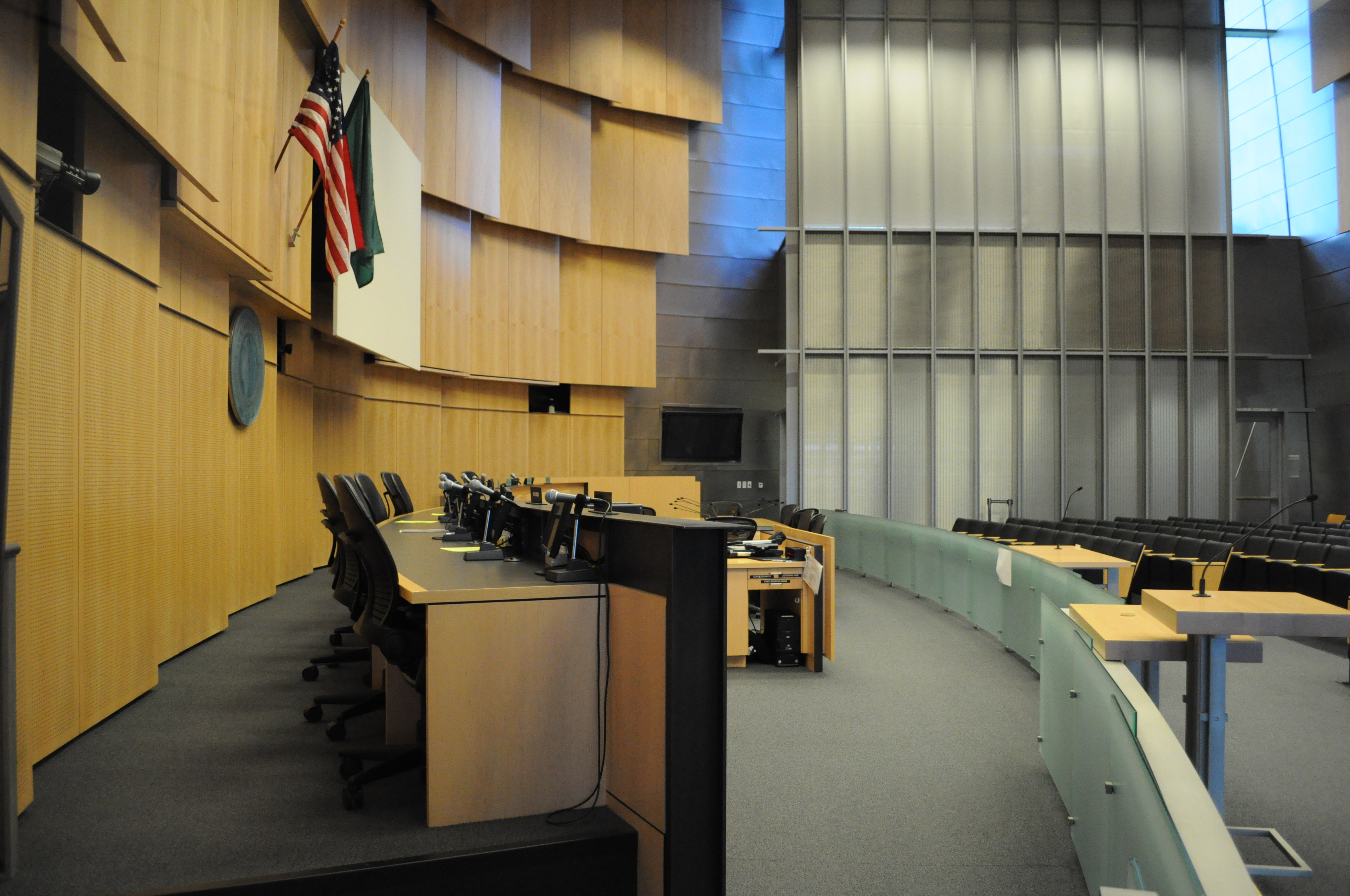 City Council Chambers, Seattle City Hall, Seattle, Washington.